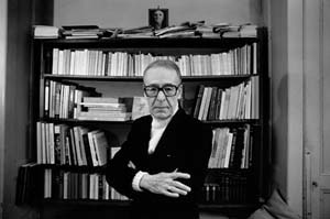 Henri Guillemin